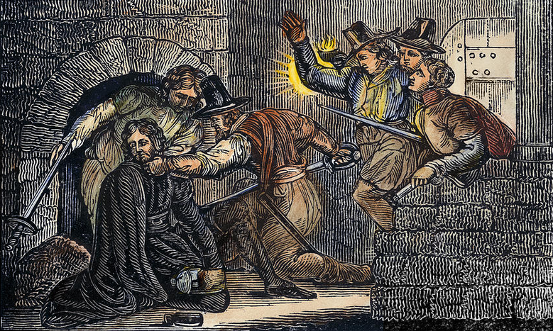 ROBERT CATESBY (1573-1605). The death of Robert Catesby after the Gunpowder Plot conspirators' last stand against the royal authorities, 8 November 1605. Wood engraving from an 1832 American edition of John Foxe's 'Book of Martyrs.'